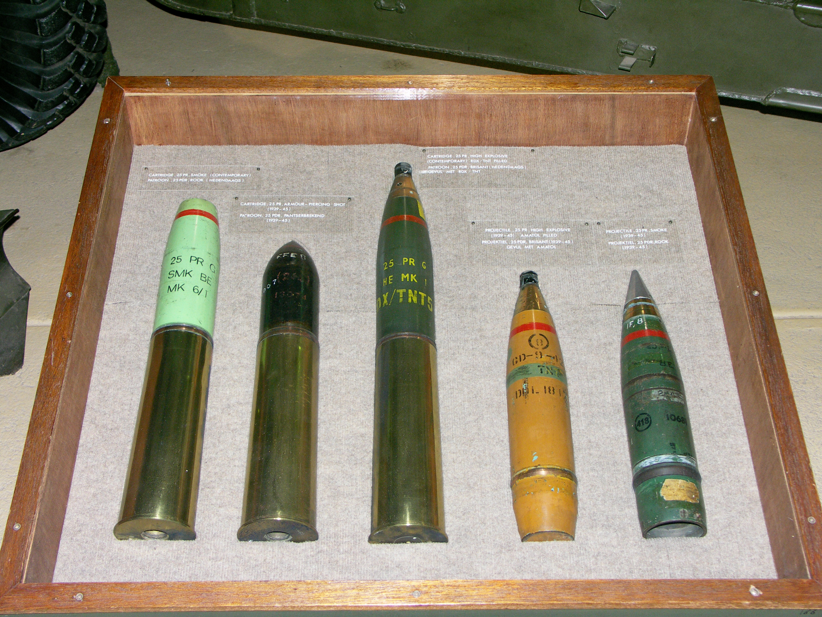 Ammunition used on the Ordnance QF 25 pounder Display of 25 pdr shells and cases. Left to right: Smoke (Modern, NATO standard colour "eau de nil"), Armour-piercing, HE (RDX/TNT), HE (Amatol), Smoke (1939-1945, British colour scheme Brunswick Green). Although some shells are shown in the cases, the shell and the case were separate items even in the bore before firing.